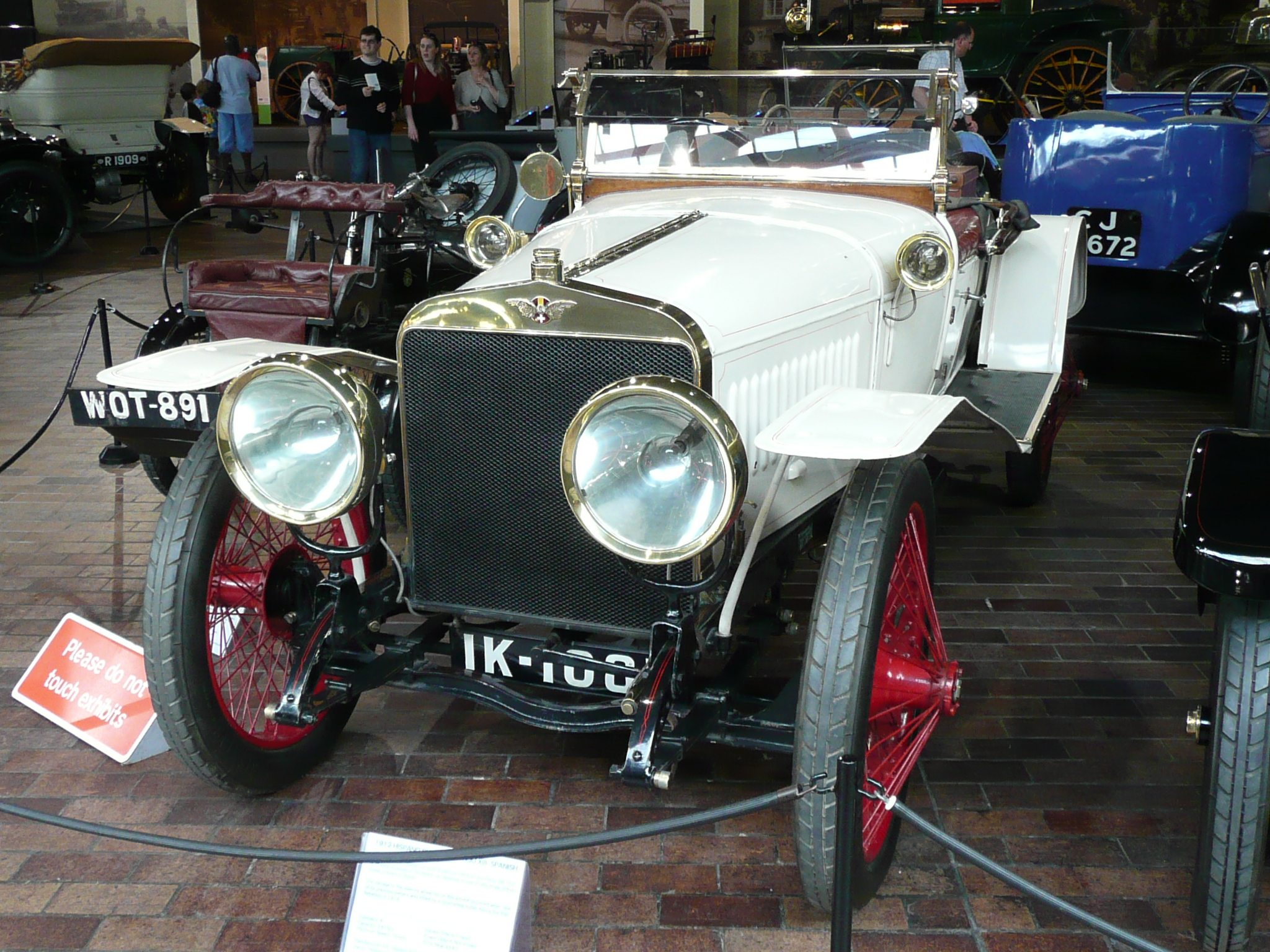 1912 Hispano-Suiza Tipo 15 Alphonso XIII open tourer, National Motor Museum in Beaulieu.